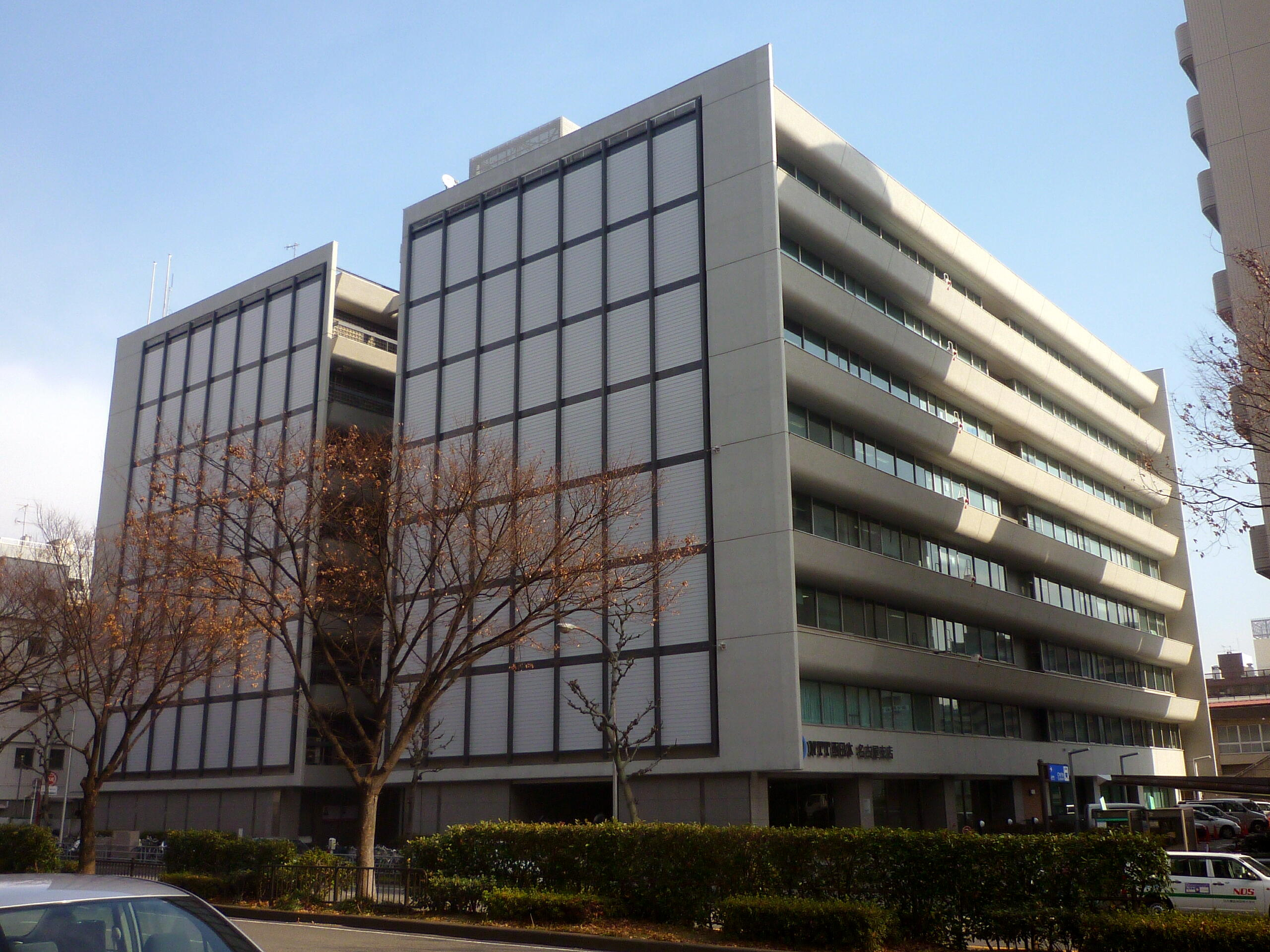 The "NTT Kamimaezu Building" in Ōsu, Naka-ku, Nagoya, Aichi, Japan.